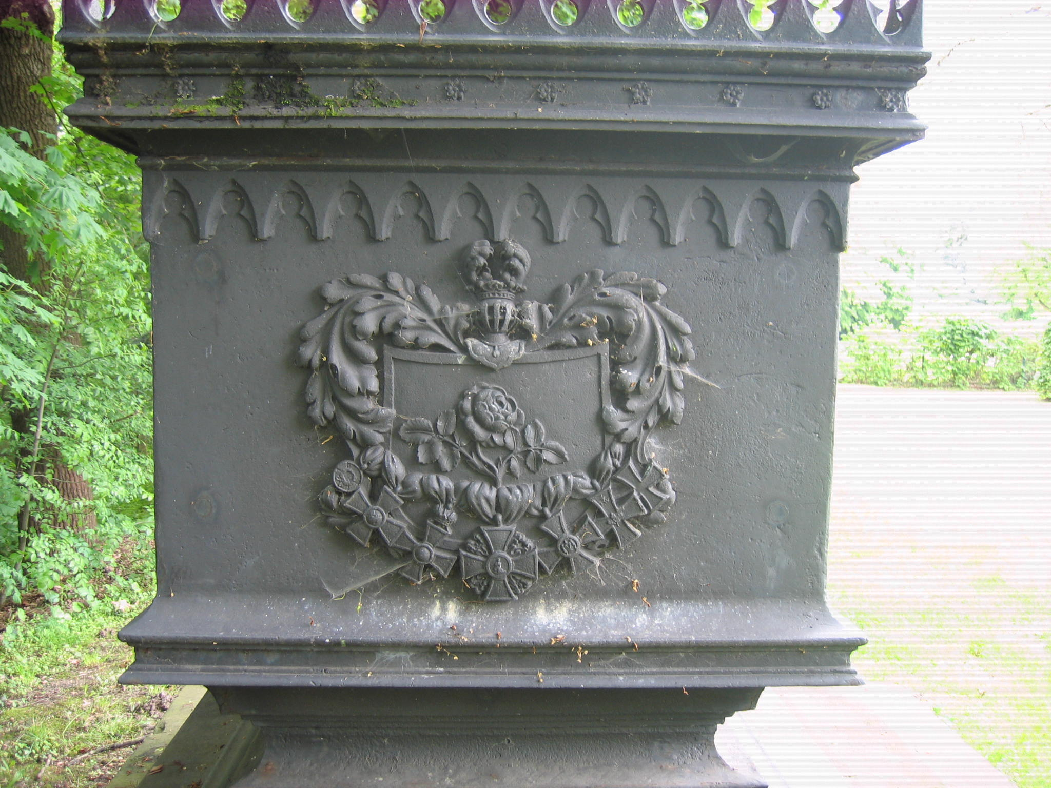 Memorial for Ernst Michael von Schwichow Minden, District of Minden-Lübbecke, North Rhine-Westphalia, Germany.